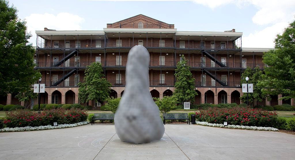 Woods Hall at the University of Alabama in Tuscaloosa, Alabama. (With modern artwork in the foreground blurred out, due to no freedom of panorama for modern artwork in the U.S.)